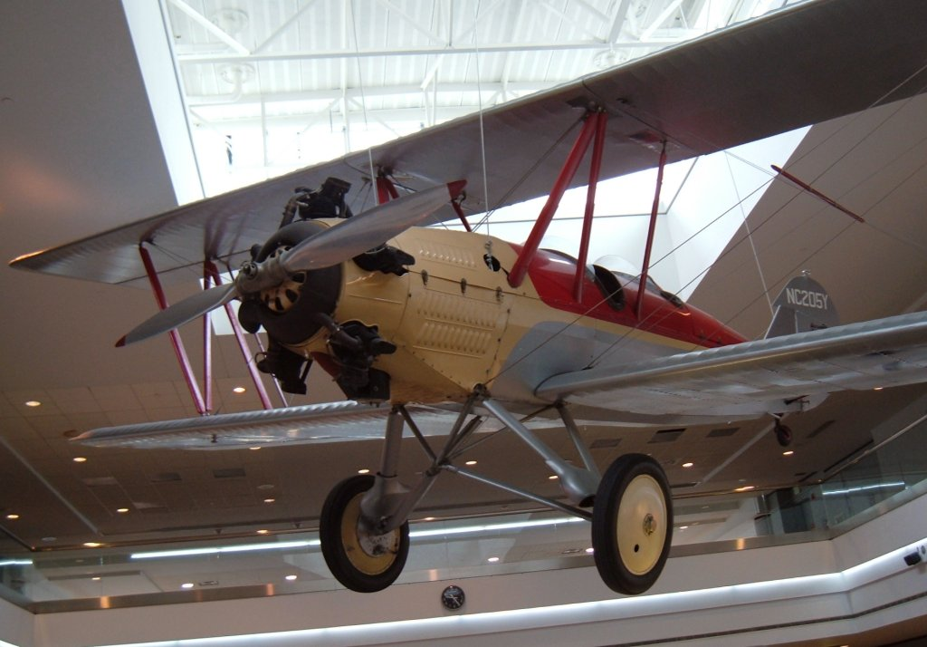 An Alexander Eaglerock at Denver International Airport, photographed by Willy Logan, November, 2005.